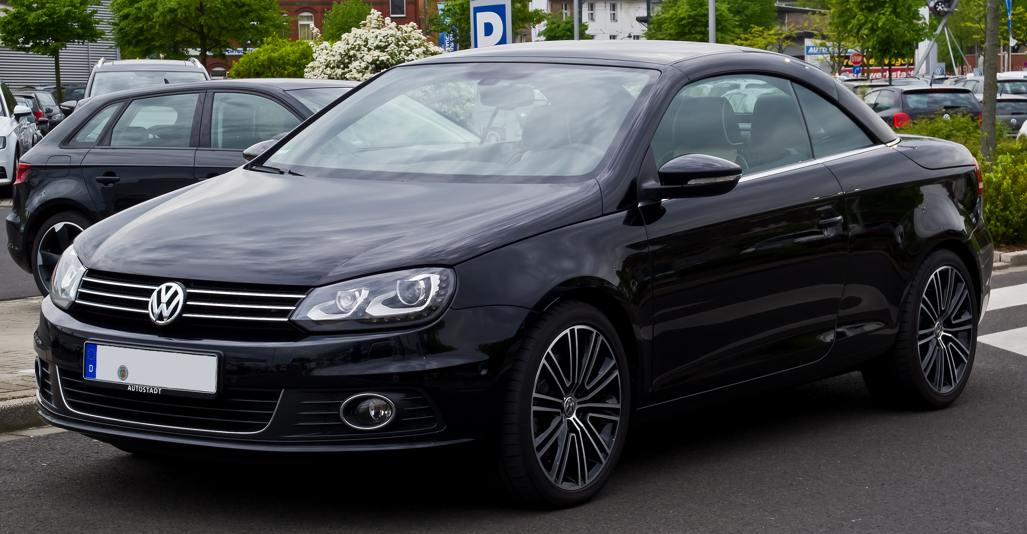 VW Eos 2.0 TSI Exclusive (Facelift)